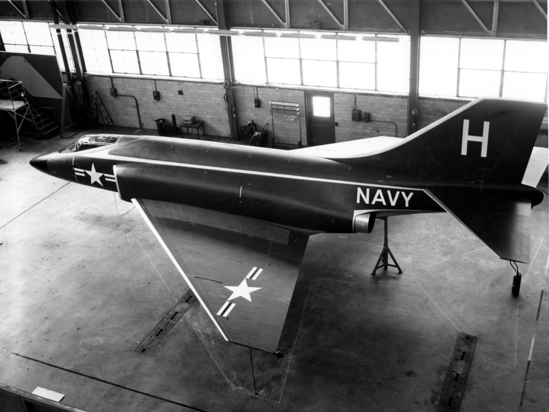 Mockup of the proposed U.S. Navy McDonnell F3H-G/H. In 1953, McDonnell Aircraft began work on revising its F3H Demon fighter, seeking expanded capabilities and better performance. The company developed several projects including a variant powered by a Wright J67 engine, and variants powered by two Wright J65 engines, or two General Electric J79 engines. The J79-powered version promised a top speed of Mach 1.97. On 19 September 1953, McDonnell approached the United States Navy with a proposal for the Super Demon. Uniquely, the aircraft was to be modular — it could be fitted with one- or two-seat noses for different missions, with different nose cones to accommodate radar, photo cameras, four 20 mm cannon, or 56 FFAR unguided rockets in addition to the nine hardpoints under the wings and the fuselage. The Navy was sufficiently interested to order a full-scale mock-up of the F3H-G/H. It depicted the different sizes of the Wright J65 and General Electric J79 afterburners, with the J79 on the right side of the mockup and the J65 on the left. The further development led directly to the F4H Phantom II.